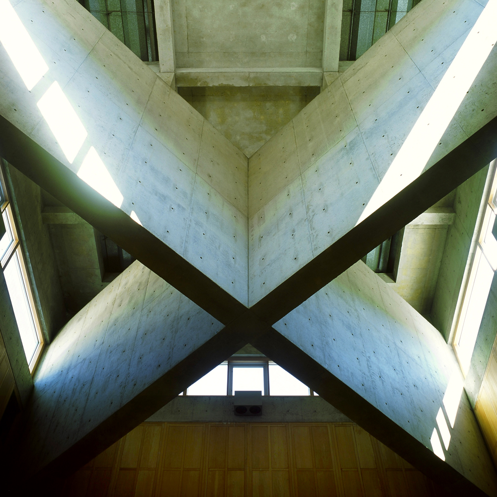 Phillips Exeter Academy library atrium cross beams close-up